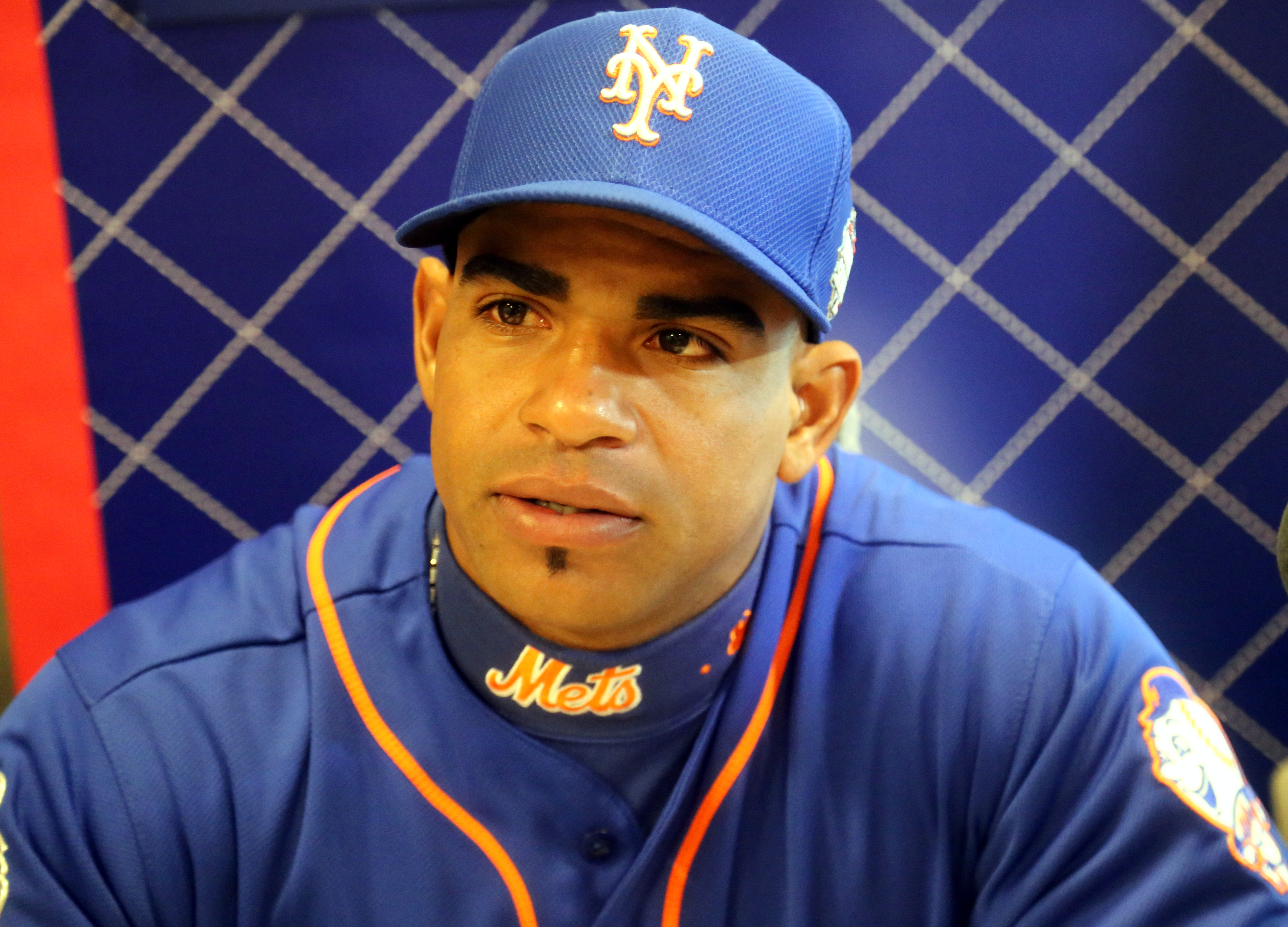 Yoenis Cespedes talks to reporters on #WSMediaDay.